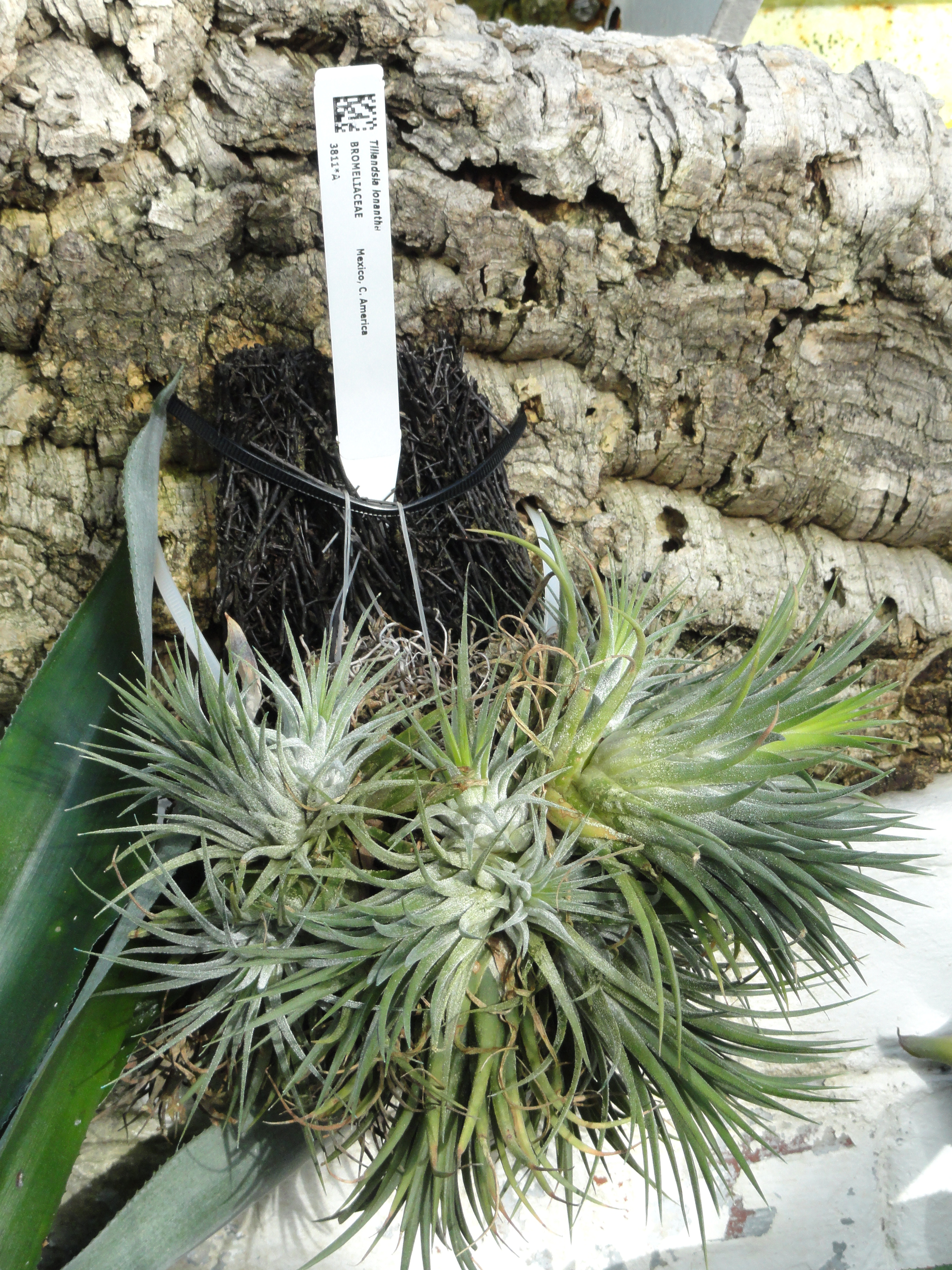 Botanical specimen in the Lyman Plant House, Smith College, Northampton, Massachusetts, USA.